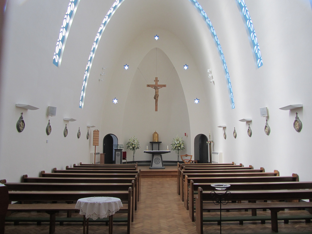 Amlwch, Our Lady Star of the Sea